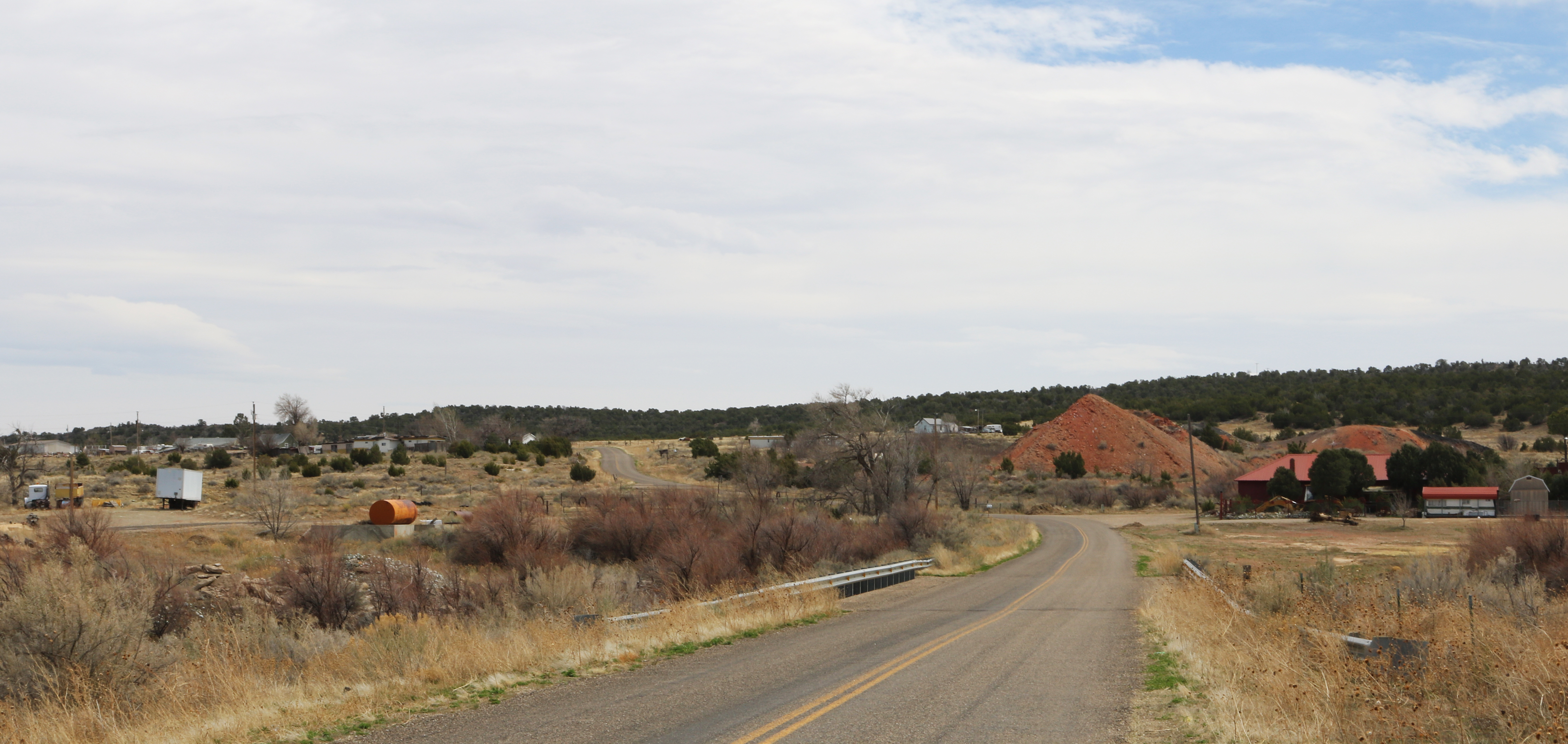 A view of Pictou, Colorado, an unincorporated community in Huerfano County. The road in the picture is Huerfano County Road 590.